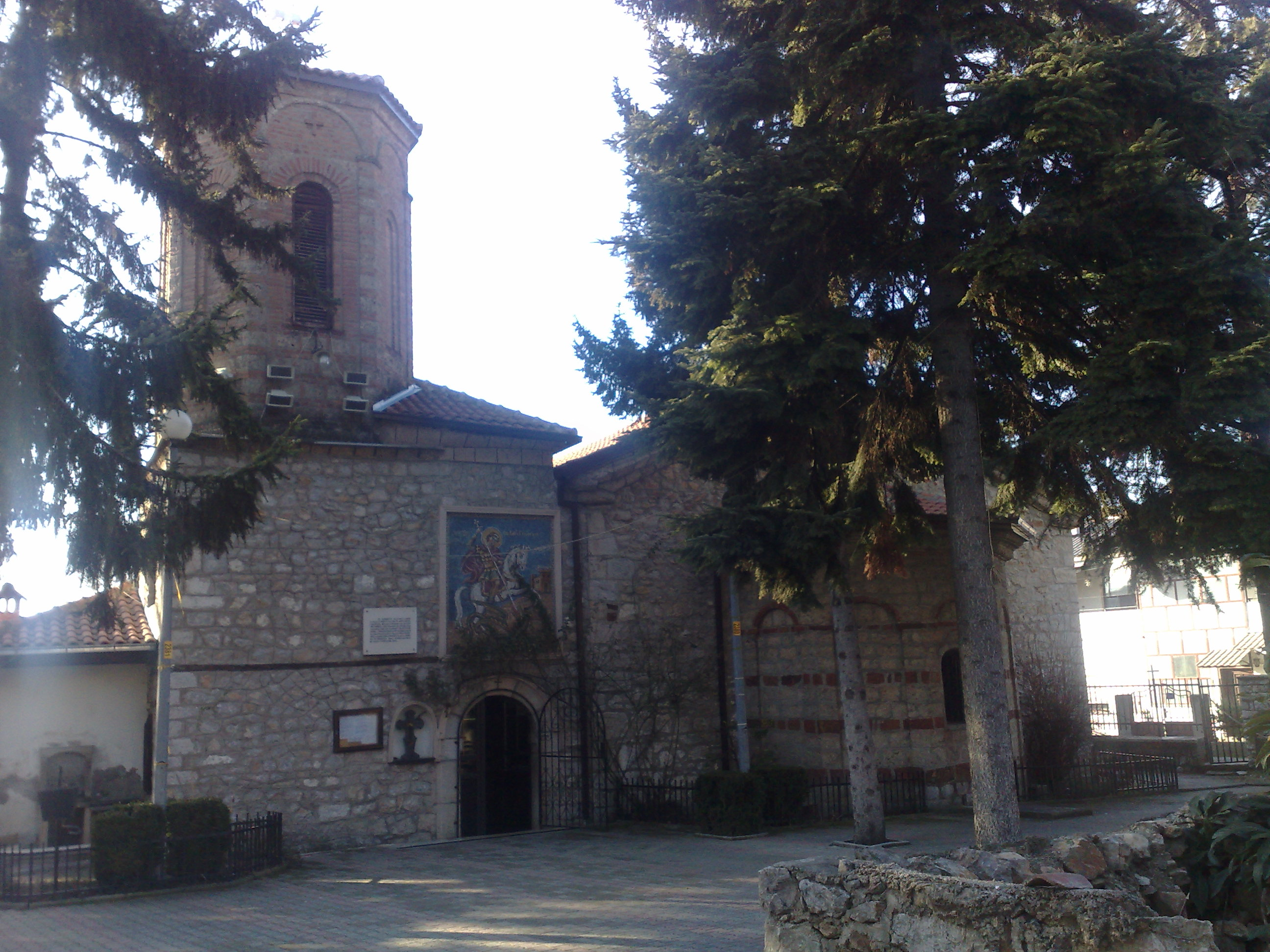 The church of St. George in Ohrid, Macedonia